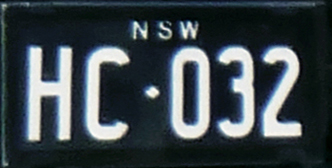 2006 Mercedes-Benz S 500 L (V 221) sedan. Photographed in Millers Point, New South Wales, Australia.